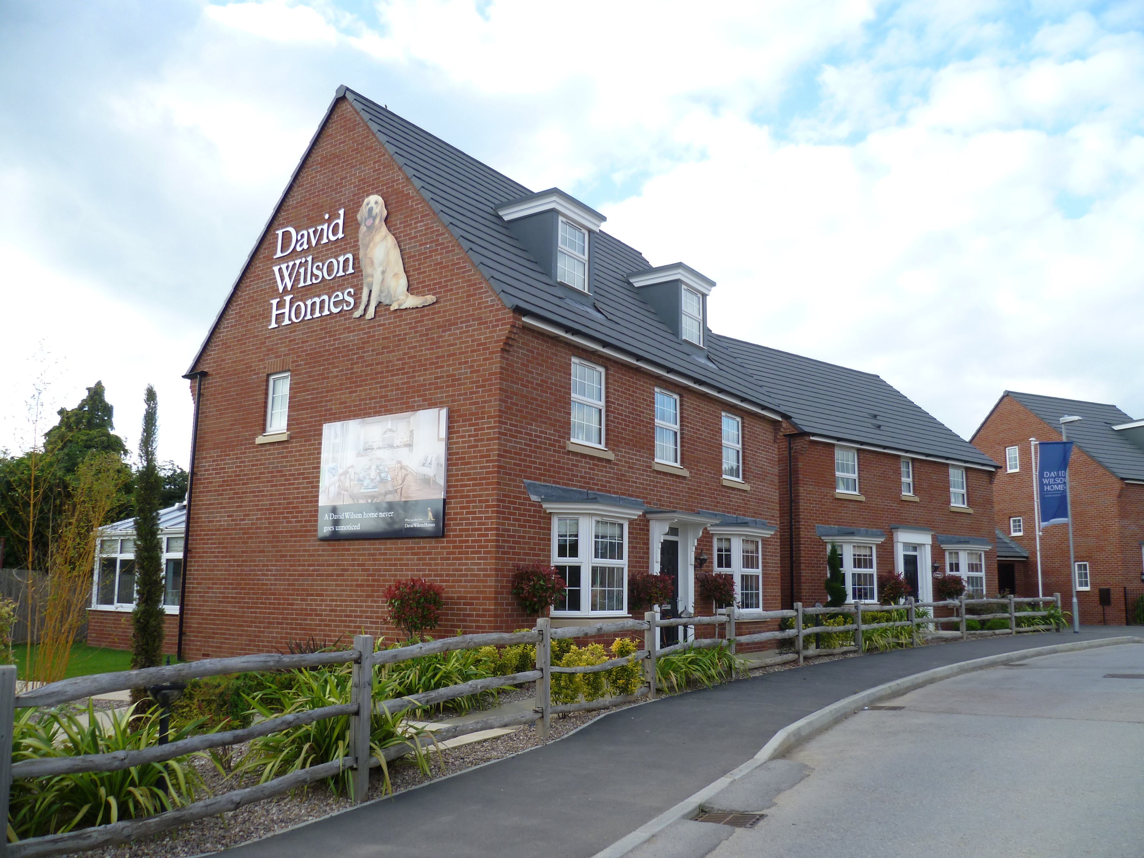 David Wilson Homes former showhome